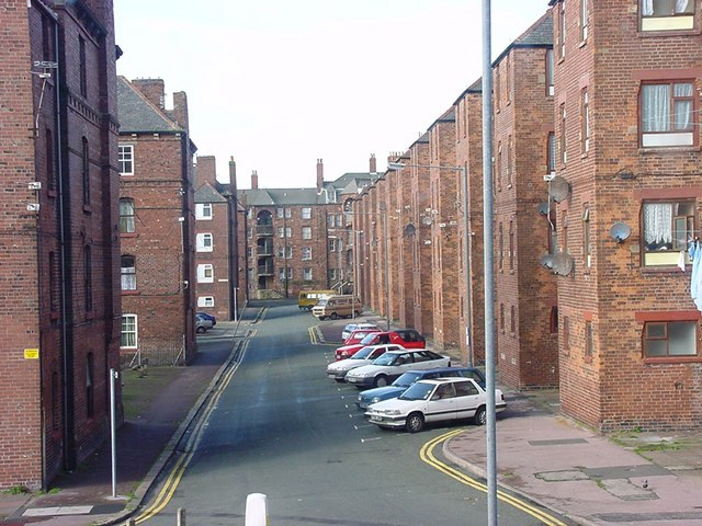 Steamer Street Tenements built during the 1880's to house the massive influx of labour onto Barrow Island.